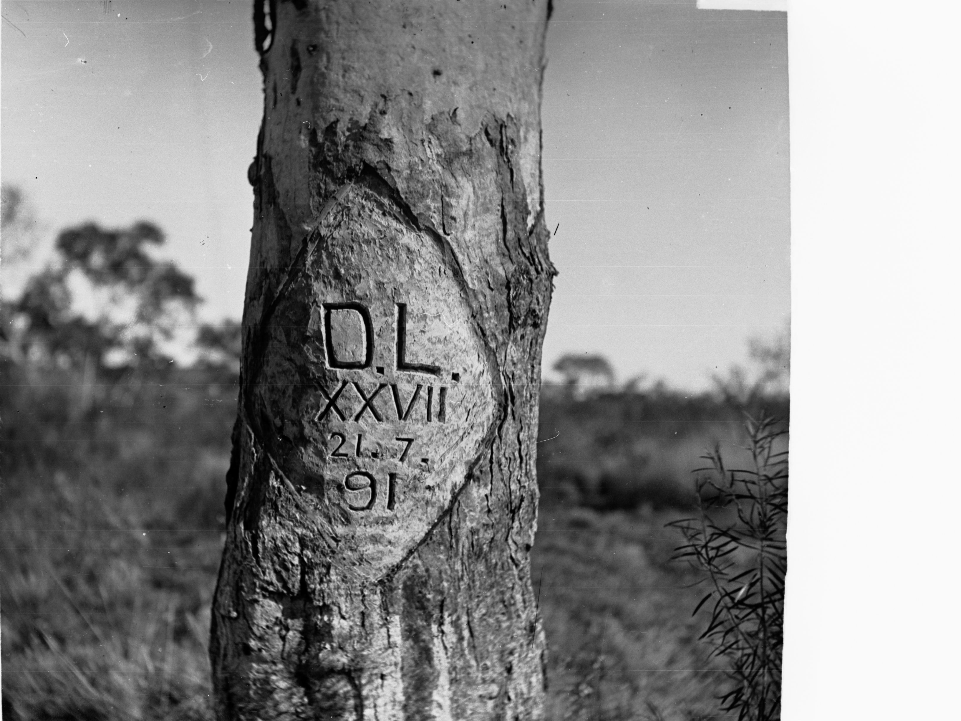 The Elder Expedition, led by David Lindsay, started in May 1891. G.P. Negative GN06494 is dated 05-06-1891. (G Brooks)